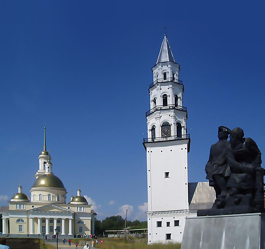 Nevyansk tower in Sverdlovsk oblast, Russia: Overview. To the left the oldbeliever church, in the middle the tower and to the right the statue with Peter the great (left) and Nikita (right)